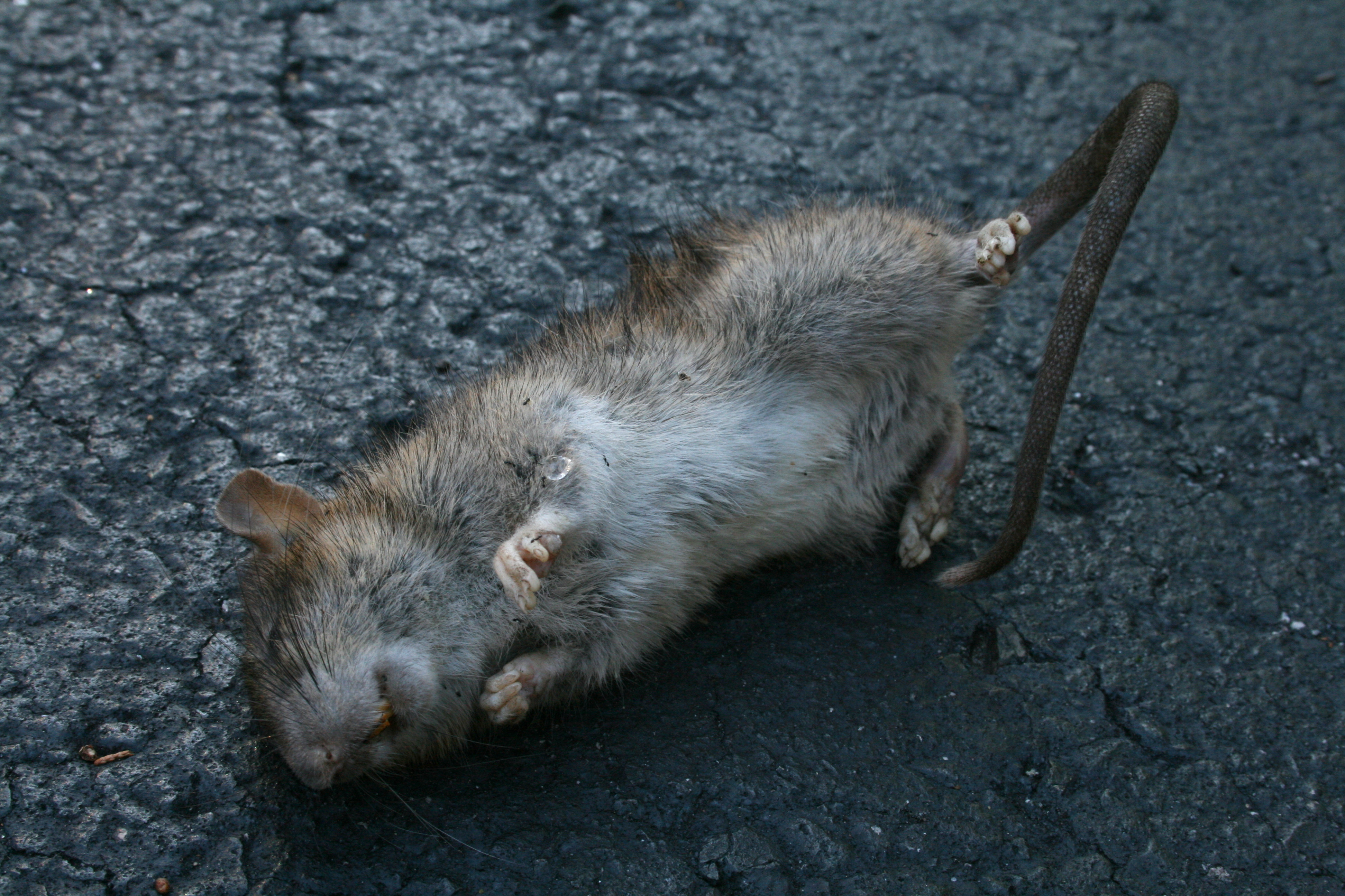 Ants feasting on a dead rat in a parking lot in Durham, North Carolina.